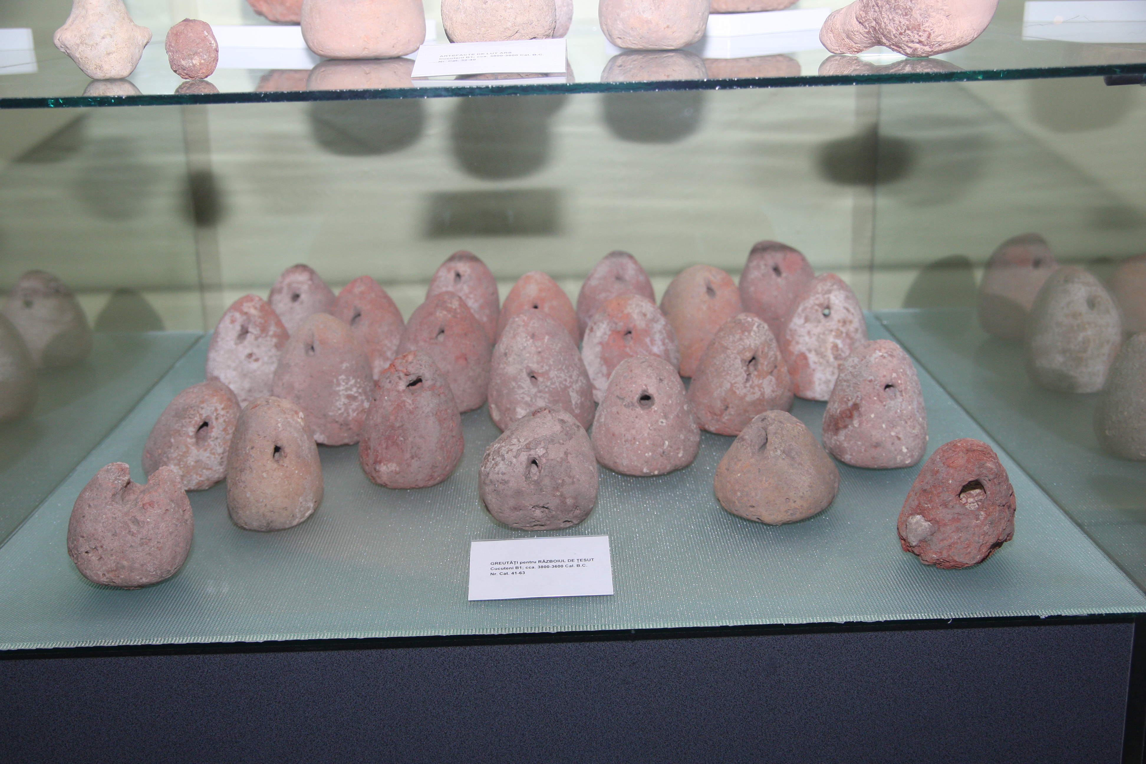 Cucuteni Loom weights exposed in Piatra Neamt Museum